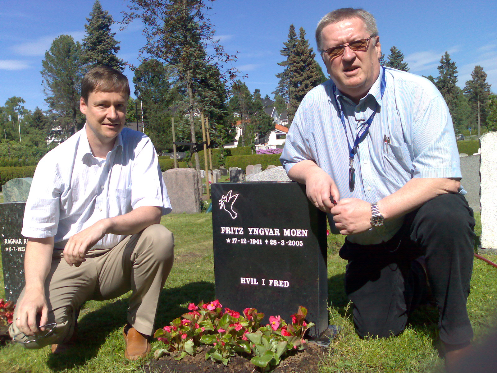 Fritz Moen's tombstone, and John Cristian Elden (Moens lawyer - to the left) and Tore Sandberg (private investigator)